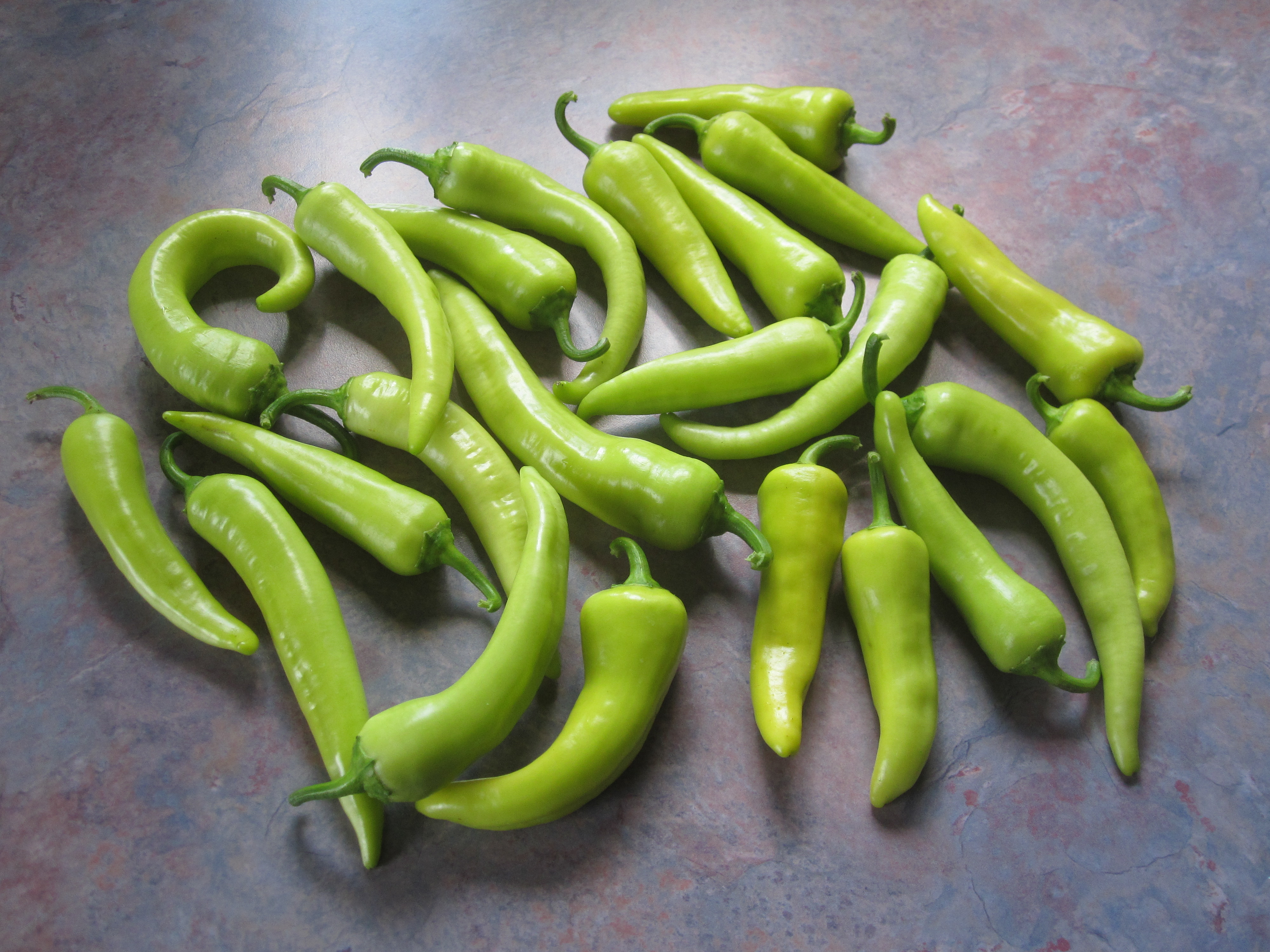 Picture of freshly picked banana peppers from a garden in Wisconsin on September 03, 2012.